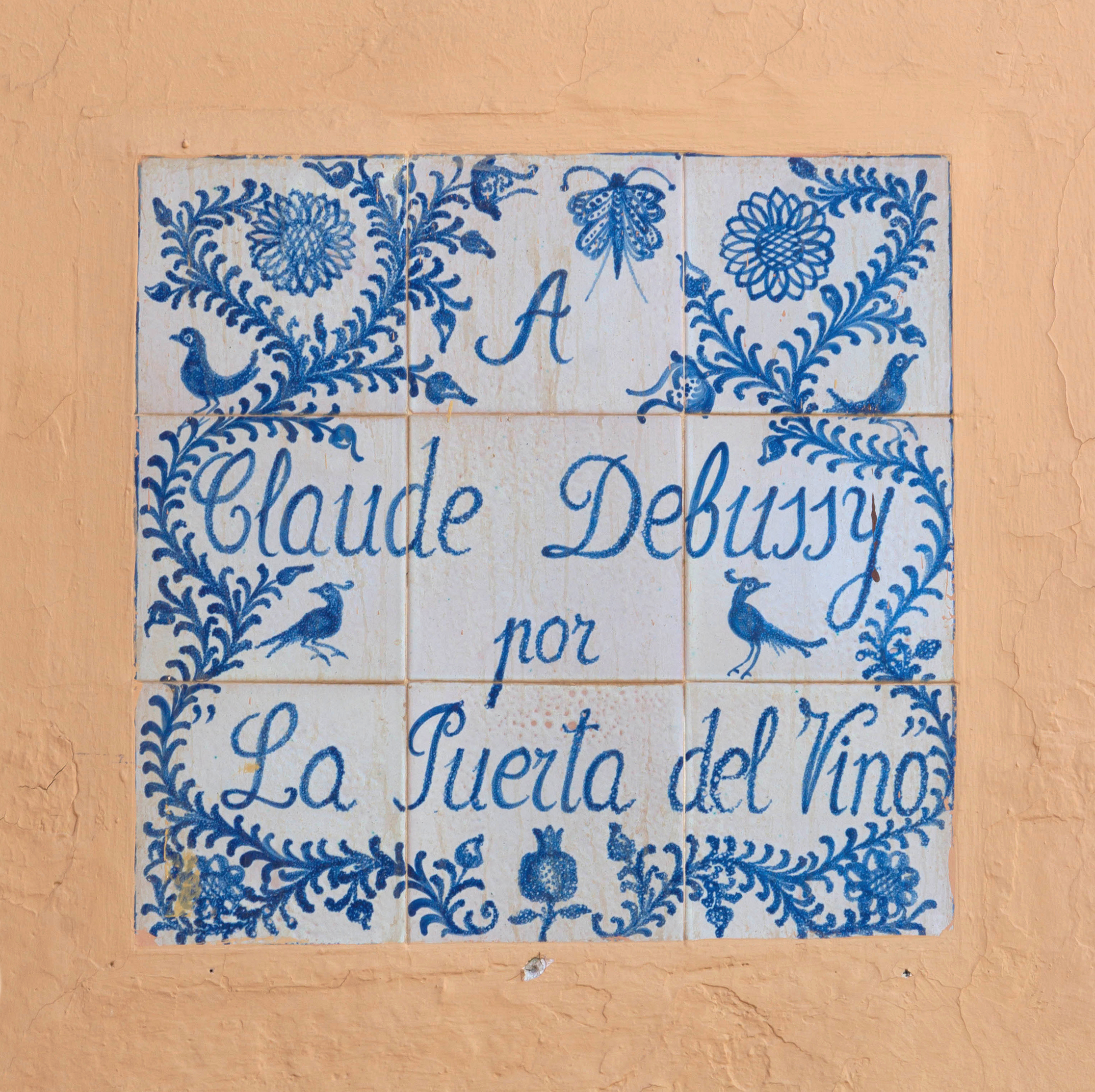 Tribute to Claude Debussy, remembrance of the piano prélude named after the "Puerta del Vino", Alhambra, Granada, Spain. Book II no.3.